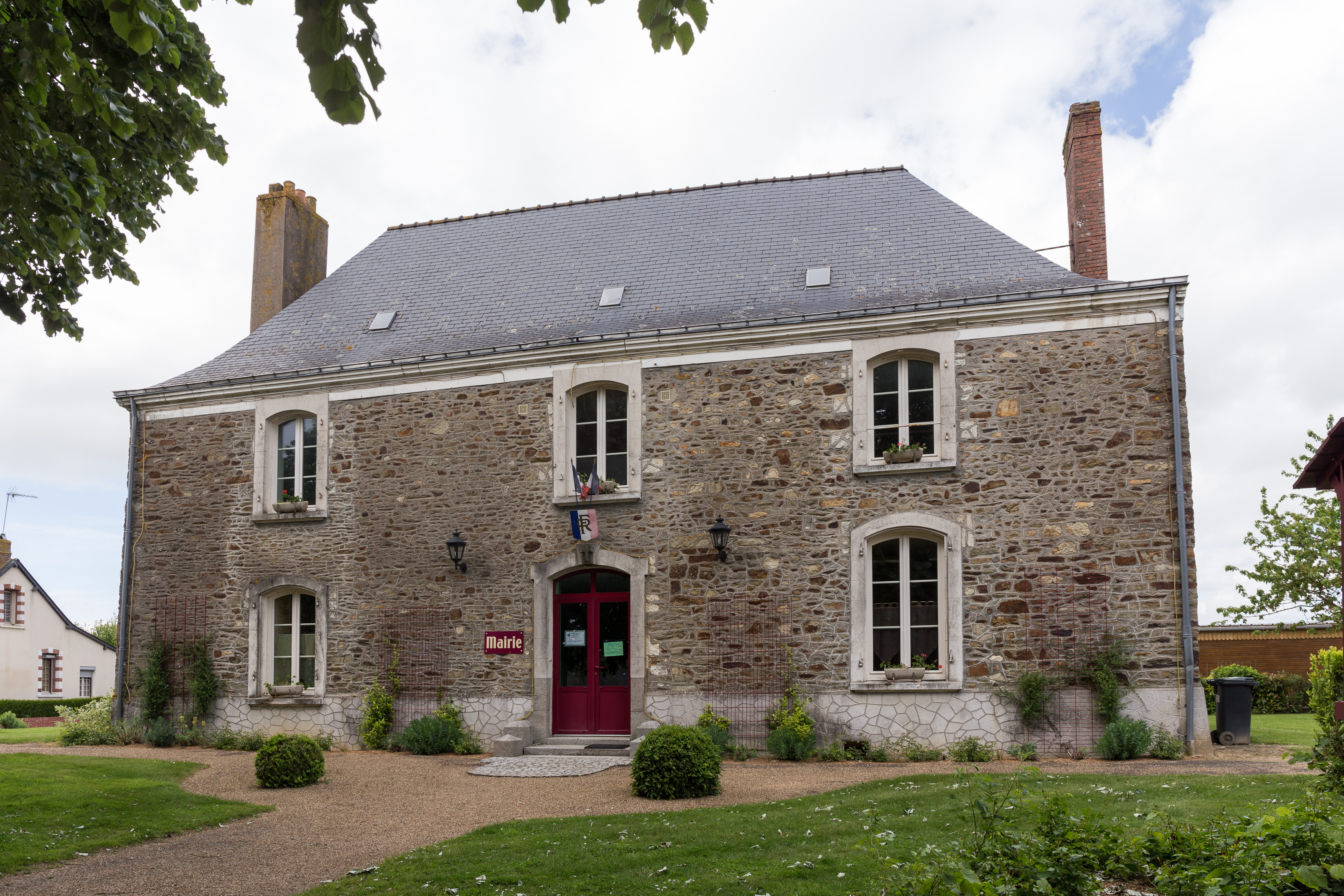 Town hall of Peuton.